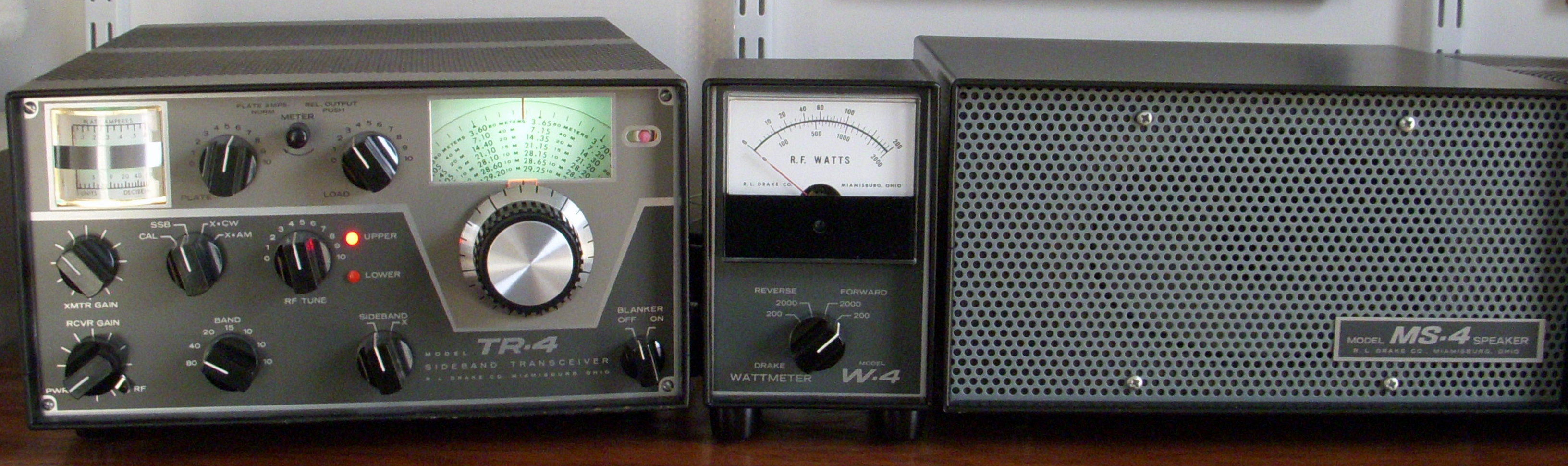 Drake TR-4 transceiver, W-4 Wattmeter, MS-4 speaker